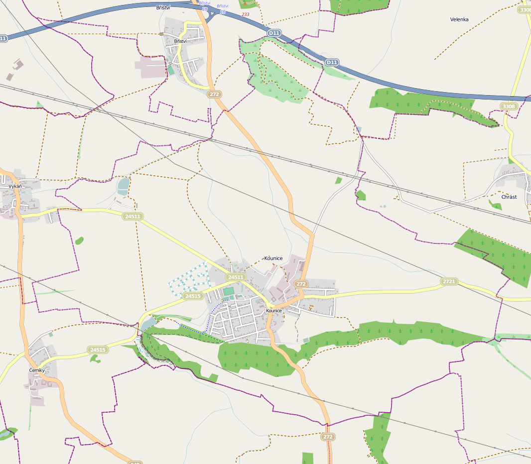 Kounice, Nymburk District, Central Bohemian Region, Czech Republic. Cadastral district map 1:30 000. This map of Kounice , okres Nymburk was created from OpenStreetMap project data, collected by the community. This map may be incomplete, and may contain errors. Don't rely solely on it for navigation.